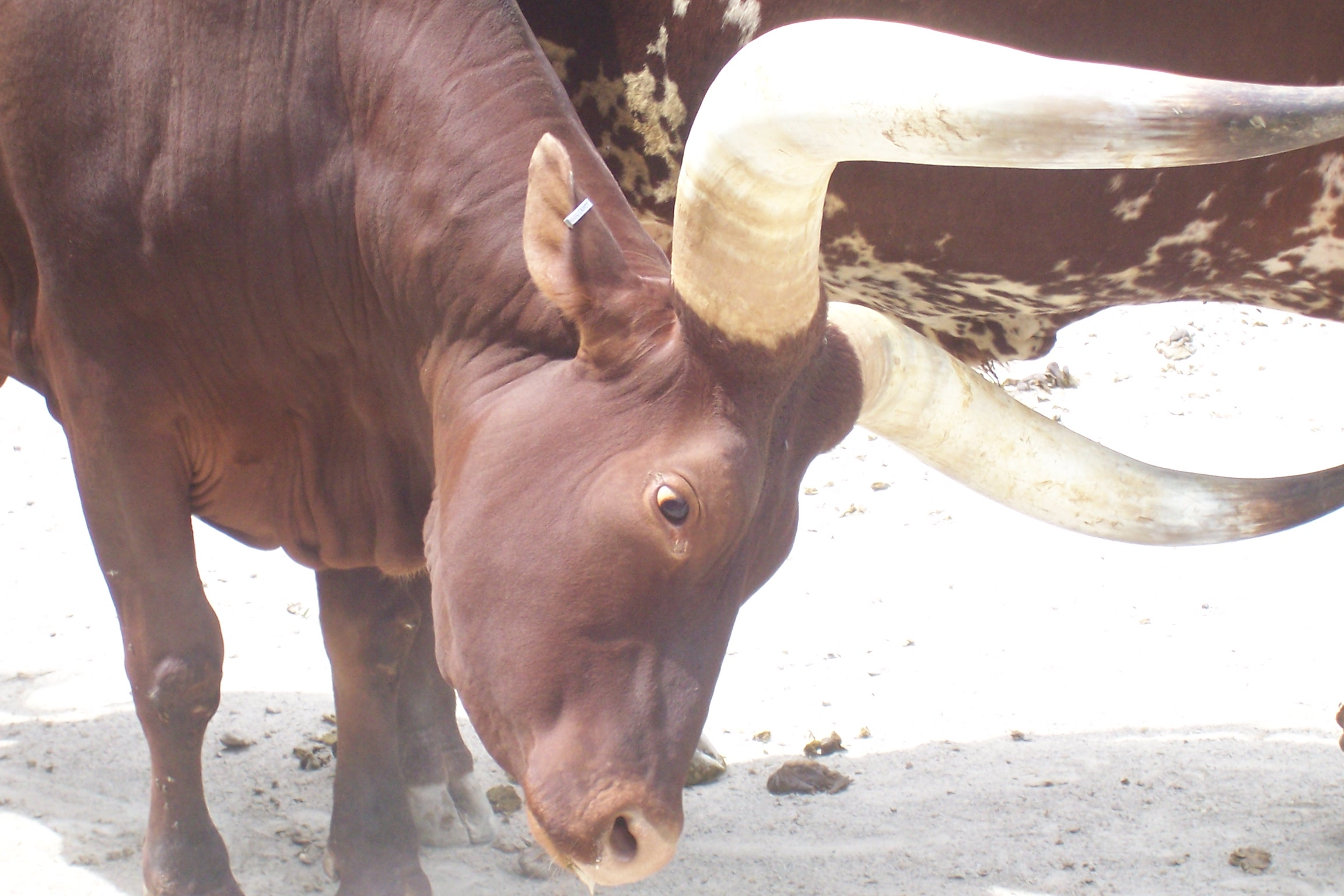 An African steer (Ankole-Watusi) at Binder Park Zoo. I have possibly misidentified this animal, please make a correction if this is not an Ankole.